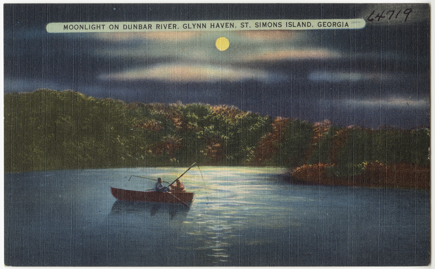 File name: 06_10_013235 Title: Moonlight on Dunbar River, Glynn Haven, St. Simons Island, Georgia Date issued: 1930 - 1945 (approximate) Physical description: 1 print (postcard) : linen texture, color ; 3 1/2 x 5 1/2 in. Genre: Postcards Subject: Rivers; Boats Notes: Title from item. Collection: The Tichnor Brothers Collection Location: Boston Public Library, Print Department Rights: No known restrictions